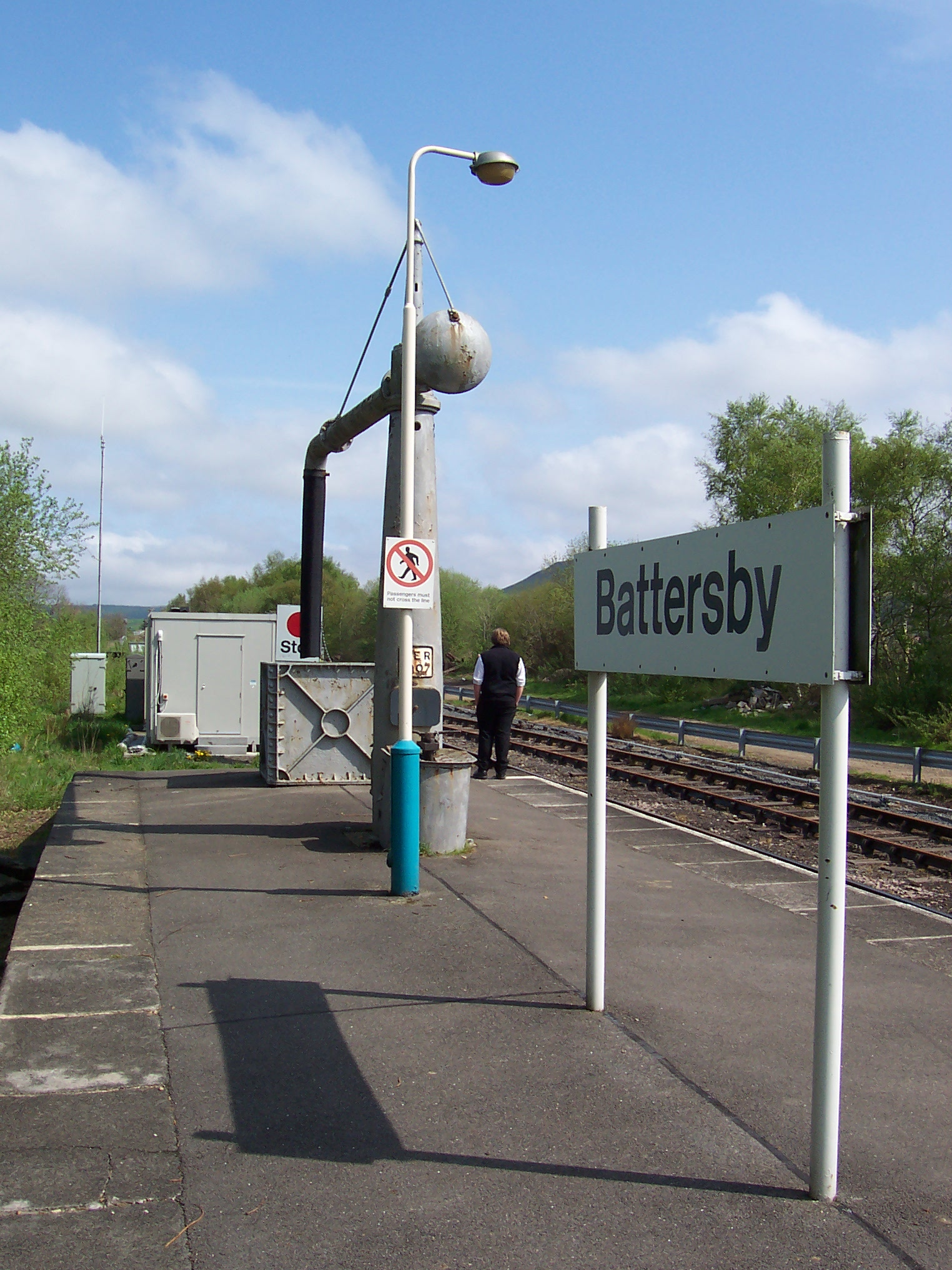 Battersby railway station.